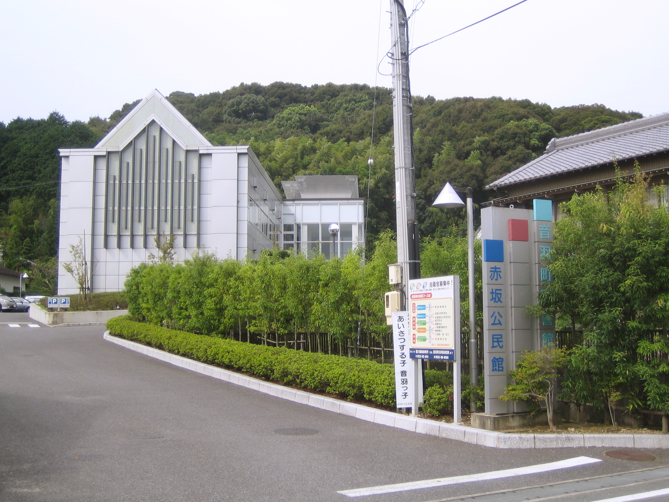 音羽町図書館。愛知県音羽町 Otowa Town Library (音羽町図書館), in Otowa, Aichi, Japan